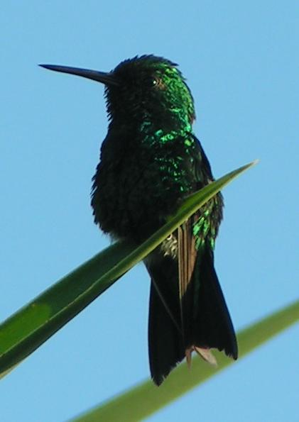 Blue-tailed Emerald